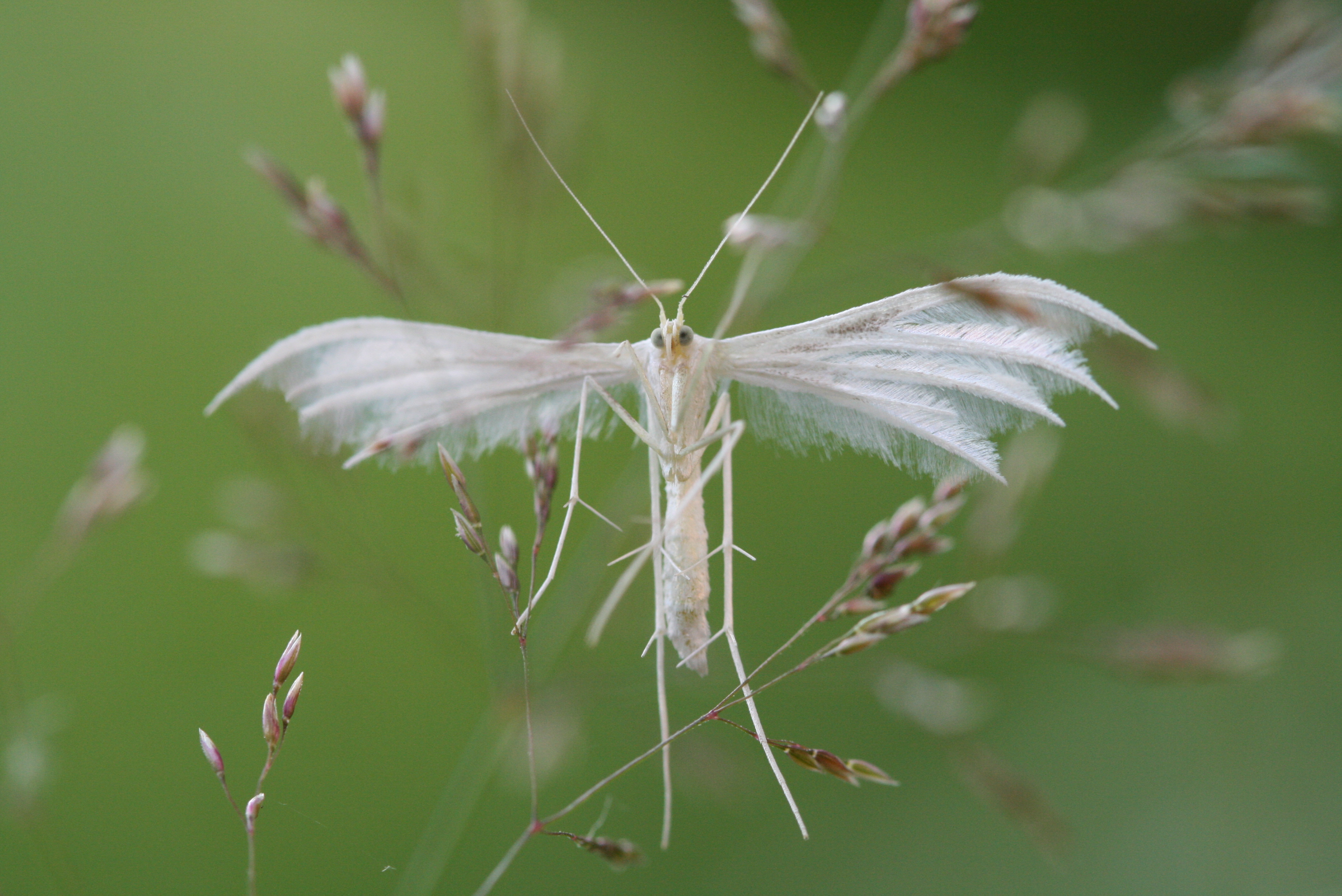 White Plume Moth (Pterophorus pentadactyla)